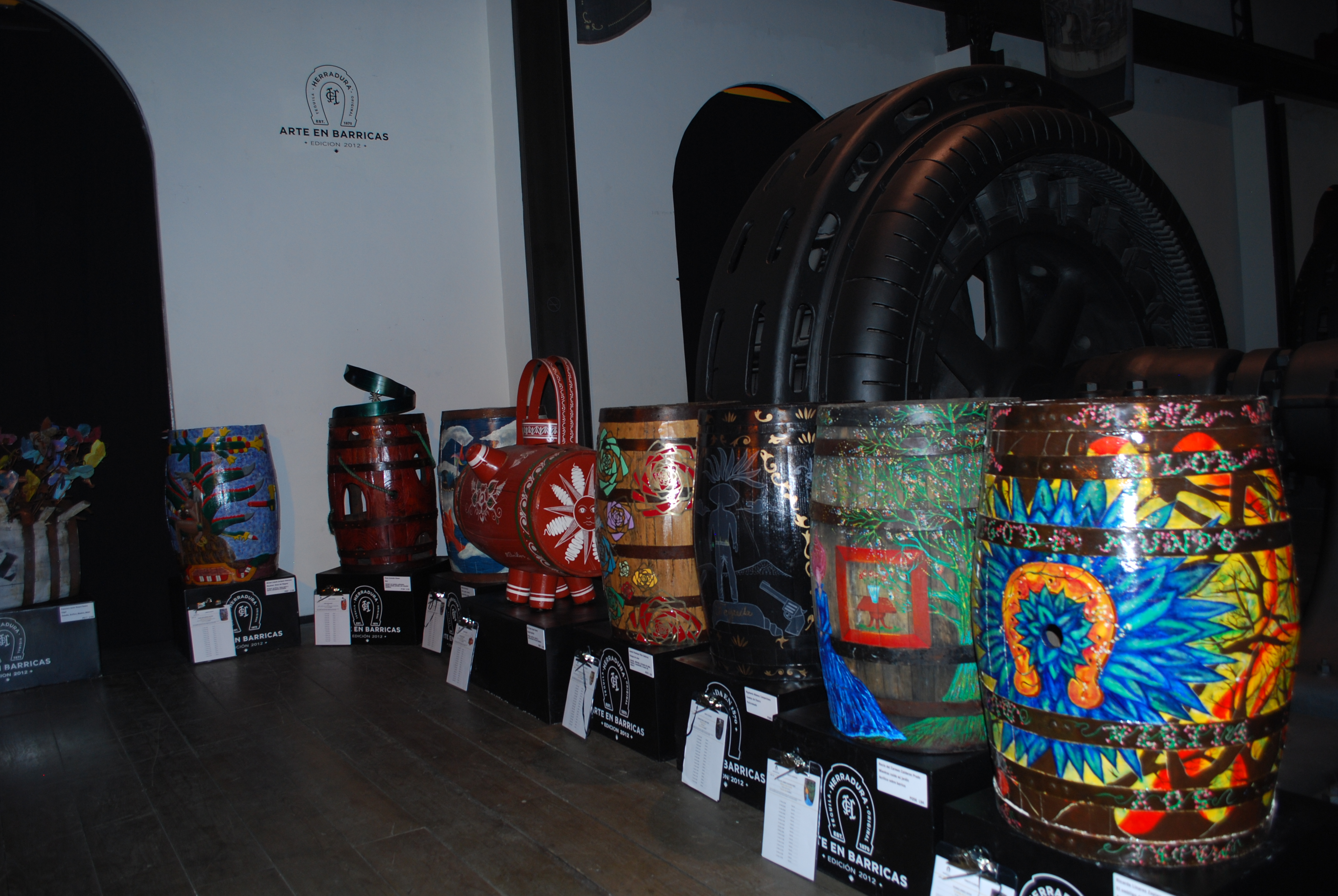 Barrils decorated by artists at the Arte en Barricas 2012 event of Herradura Tequila at the Centro Cultural Indianilla in Mexico City